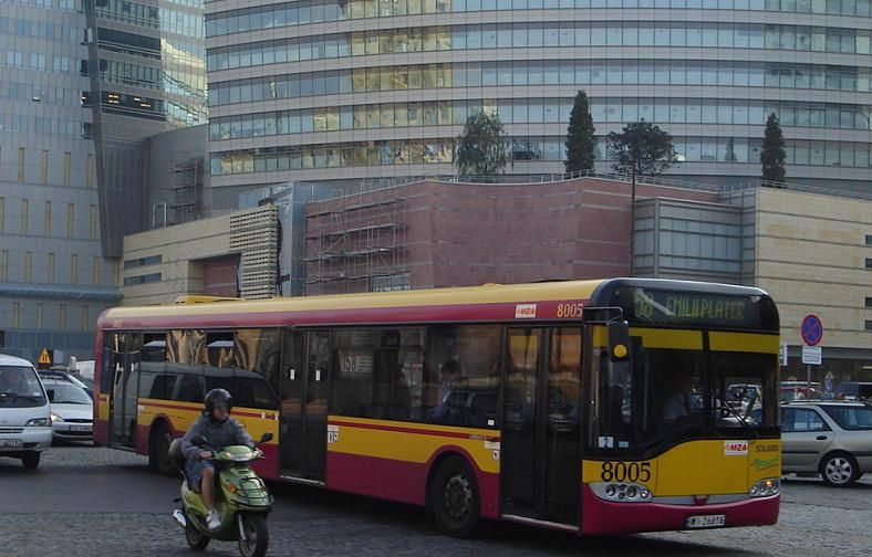 Solaris Urbino 15 Mk1 bus (#8005) in Warsaw, Poland. Year build 2001. MZA Warszawa company.